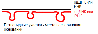 Heteroduplex